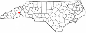 Category:North Carolina Dot Maps